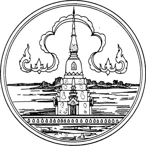 Provincial seal of Sakon Nakhon province.